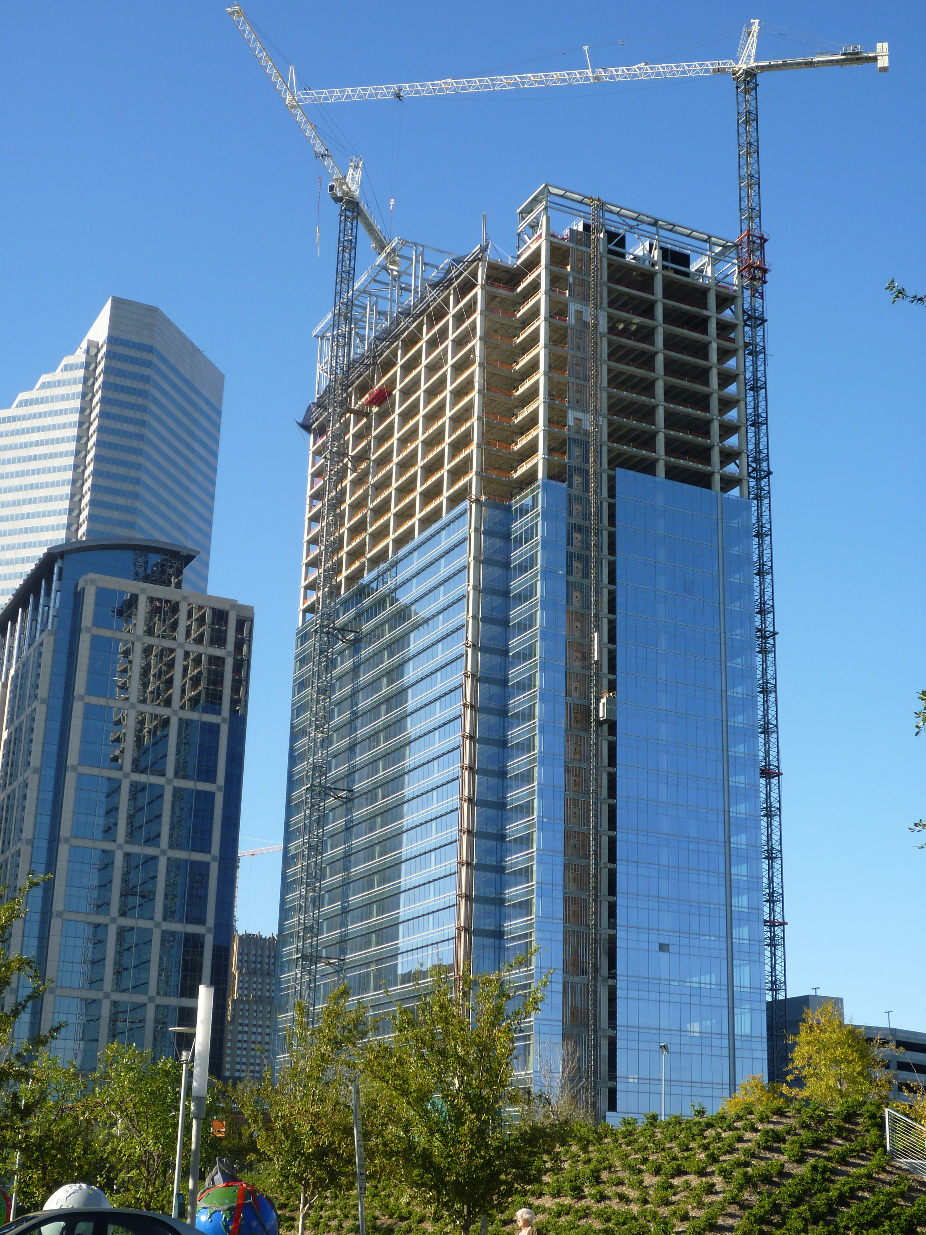 As viewed from Discovery Green.